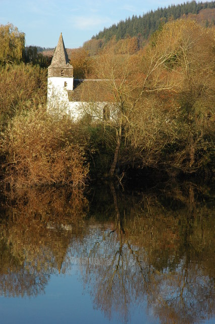 Dixton Church, Monmouth Viewed from across the River Wye, Dixton church is dedicated to St Peter.